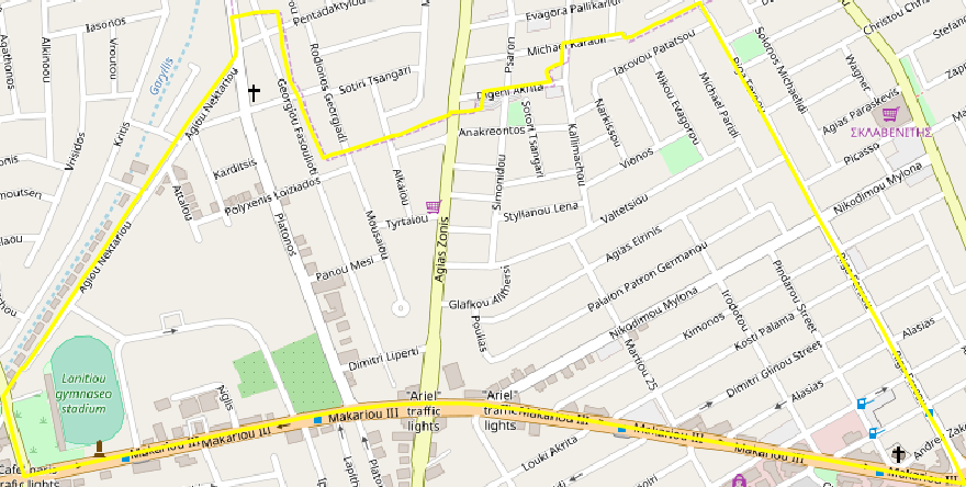 Map of Agios Nektarios.